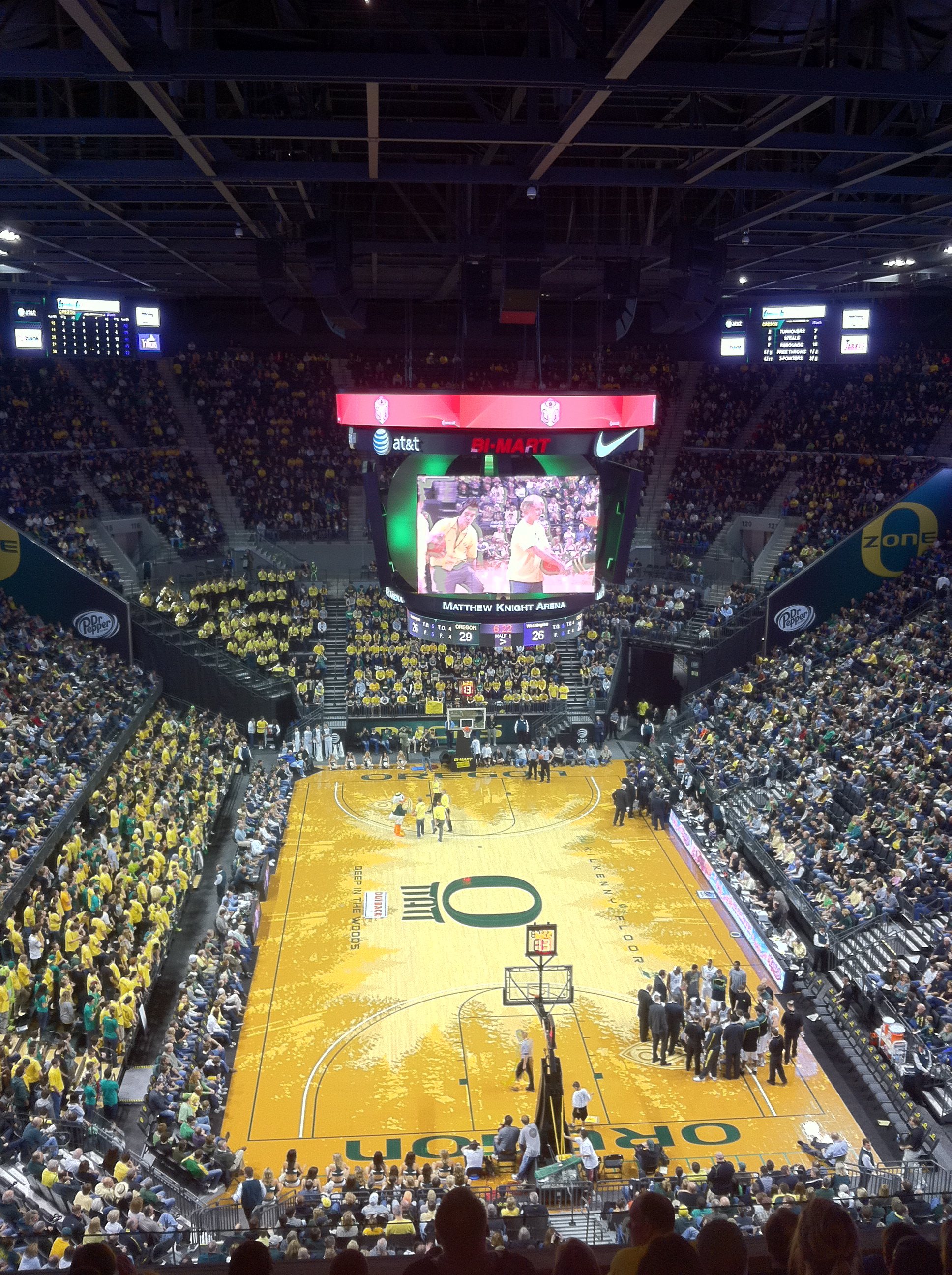 Interior of Matthew Knight Arena during the Oregon-Washington men's basketball game.